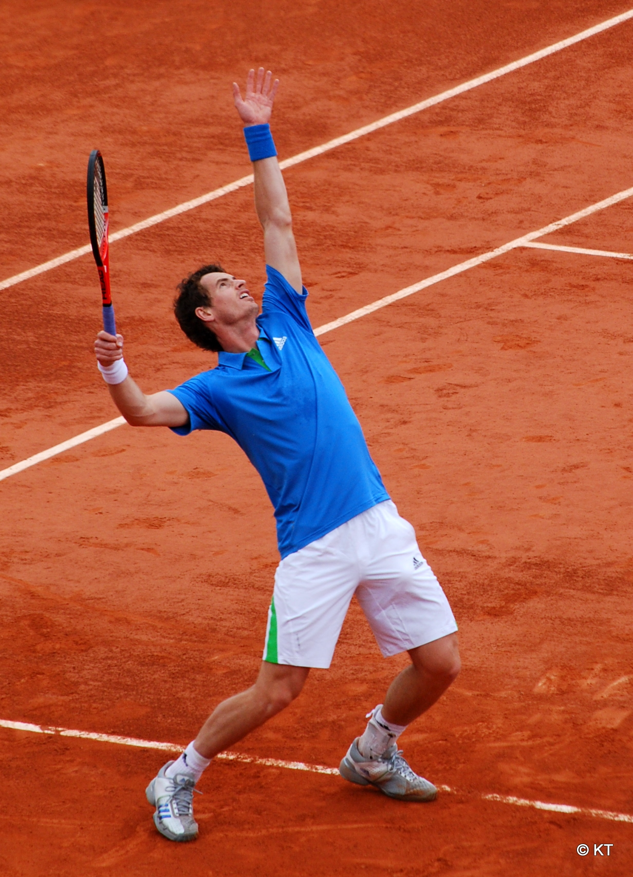 Murray serving during the second round of the French Open 2011 against Bolelli